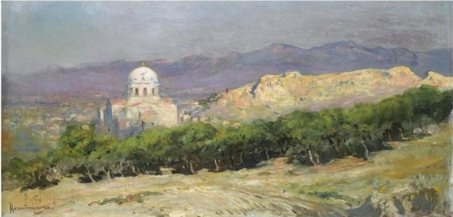 View of church of saint Nicholas in Athens, oil painting